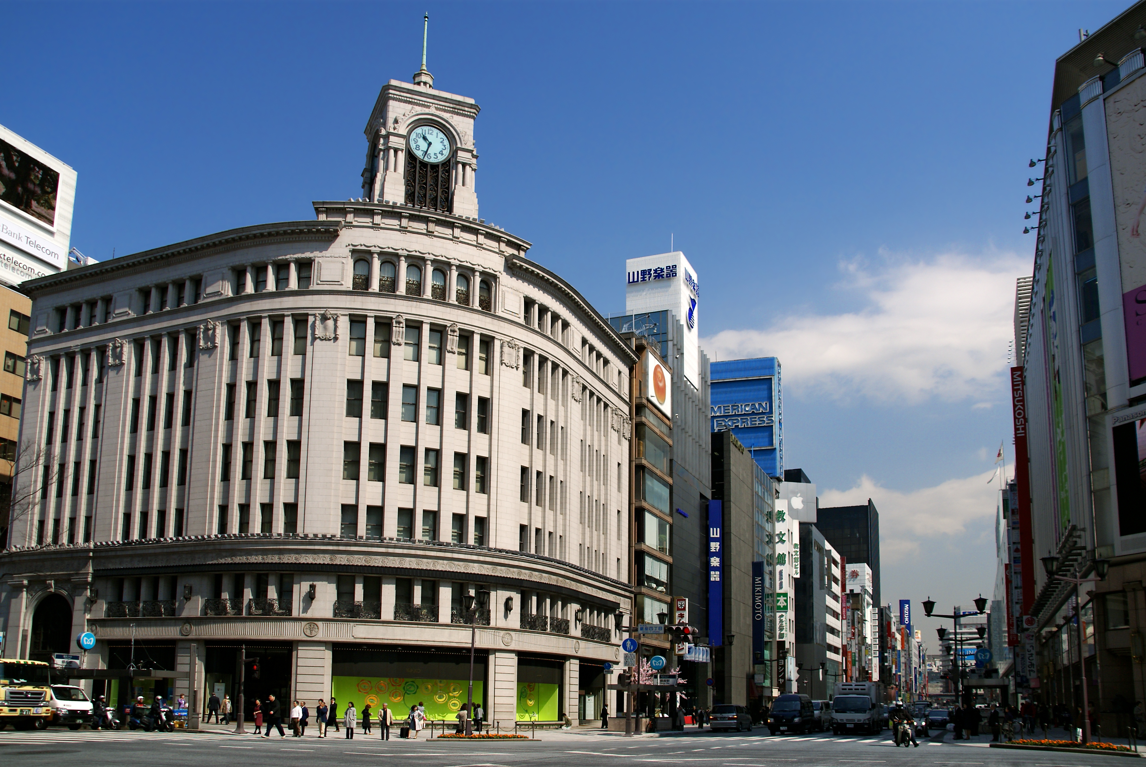 Wako Department Store in Ginza, Chūō, Tokyo, Japan